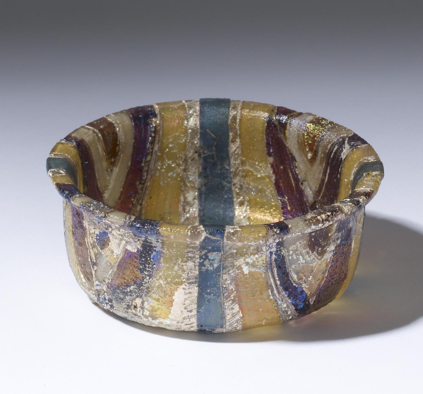 This bowl has a flat bottom, a projecting rim, and a striped mosaic design in yellow, green, and red.